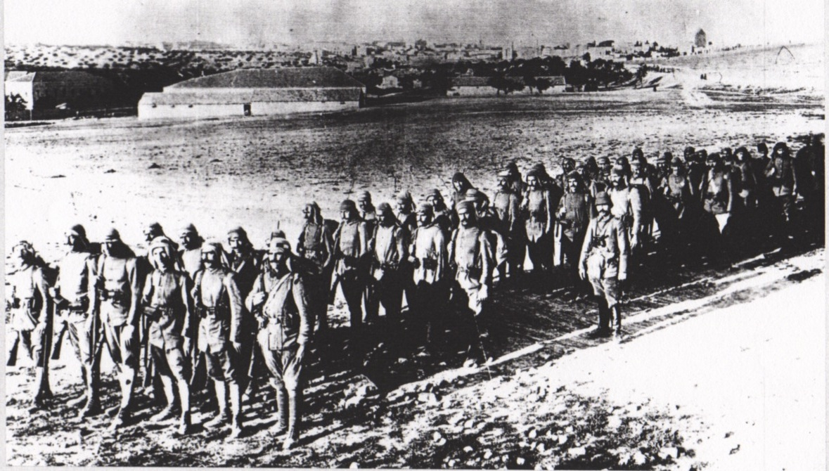 Photo of Ottoman soldiers